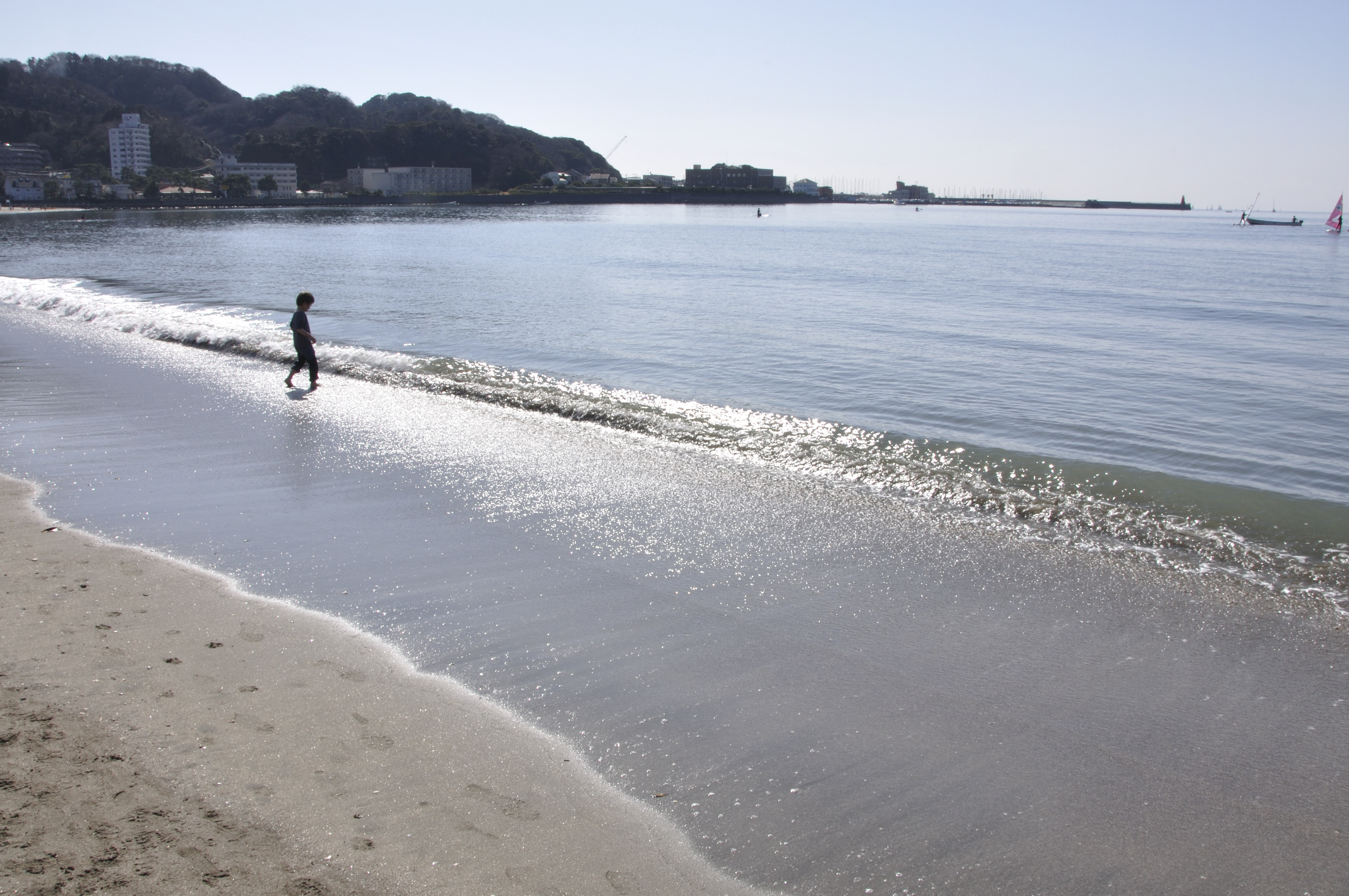 Zushi Beach. Nikon D90 + AF-S DX Nikkor 18-105mm f/3.5-5.6G ED VR